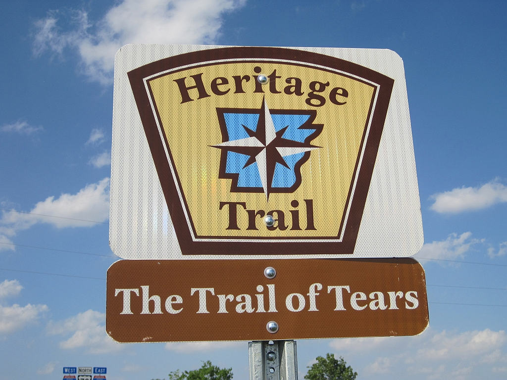 Trail of Tears sign in Arkansas